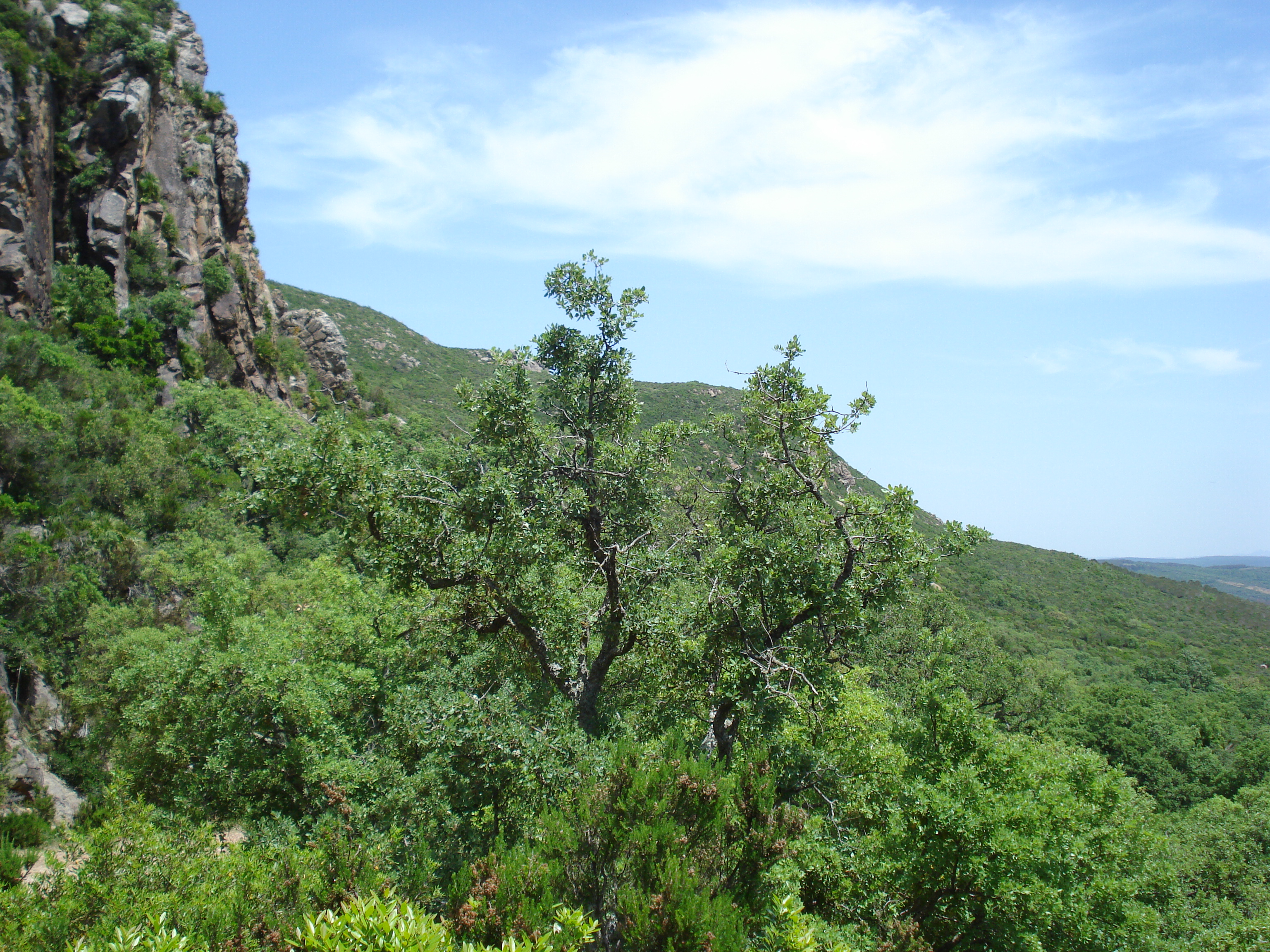 Jebel Sidi Mohammed near Cap Negro, North-West of Tunisia